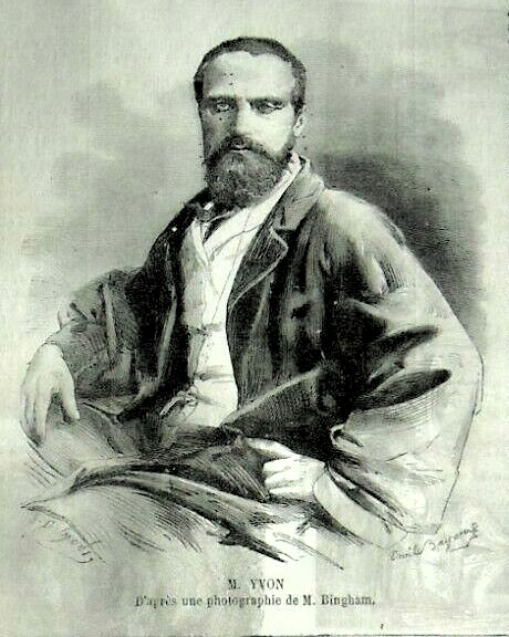 Photo by Adolphe Yvon from the "Le Monde illustré"